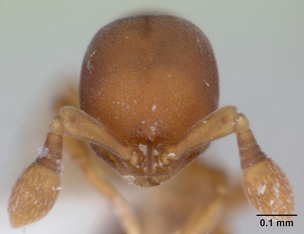 Head view of ant Discothyrea denticulata specimen casent0178697.